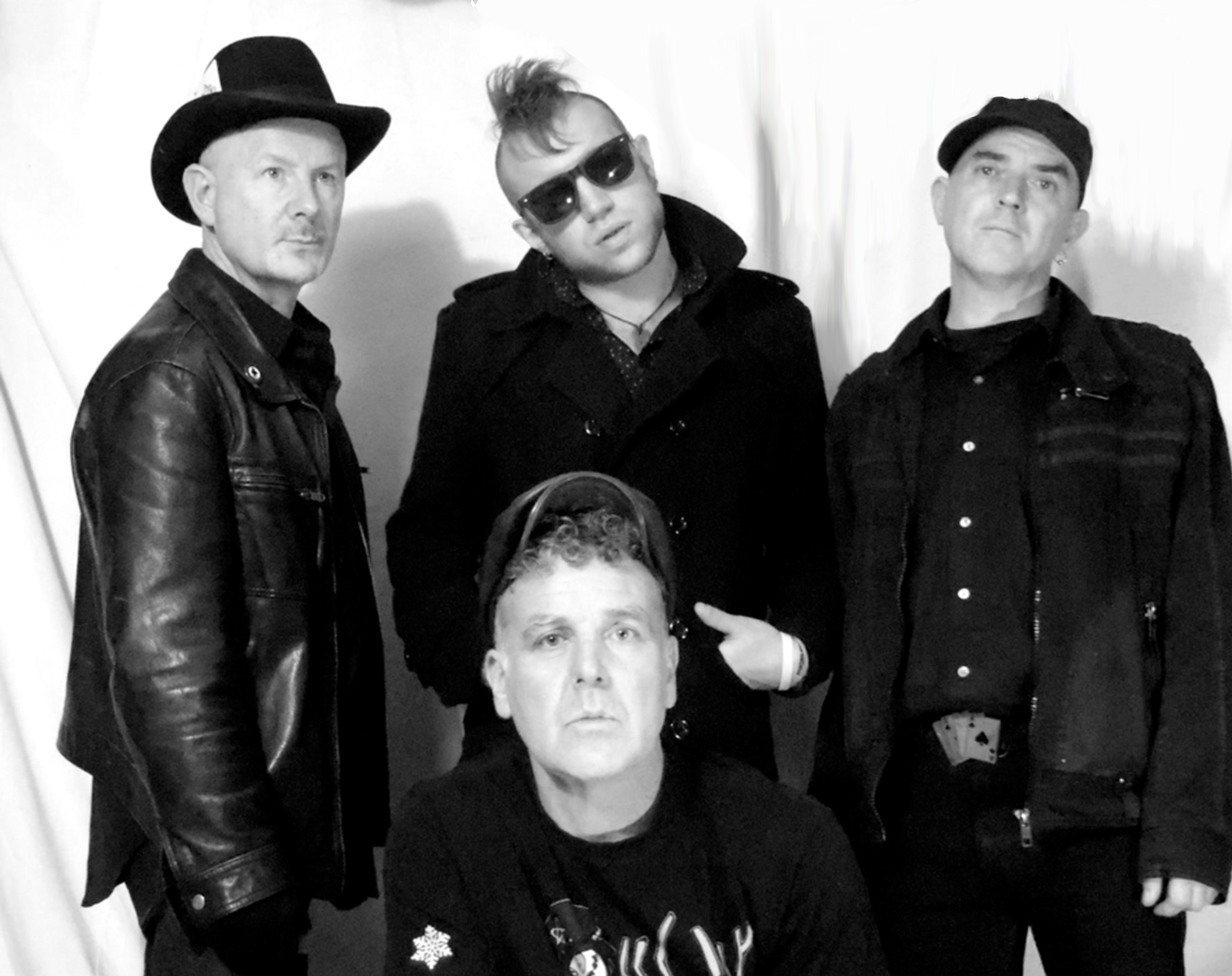 official 1919 promo 2016